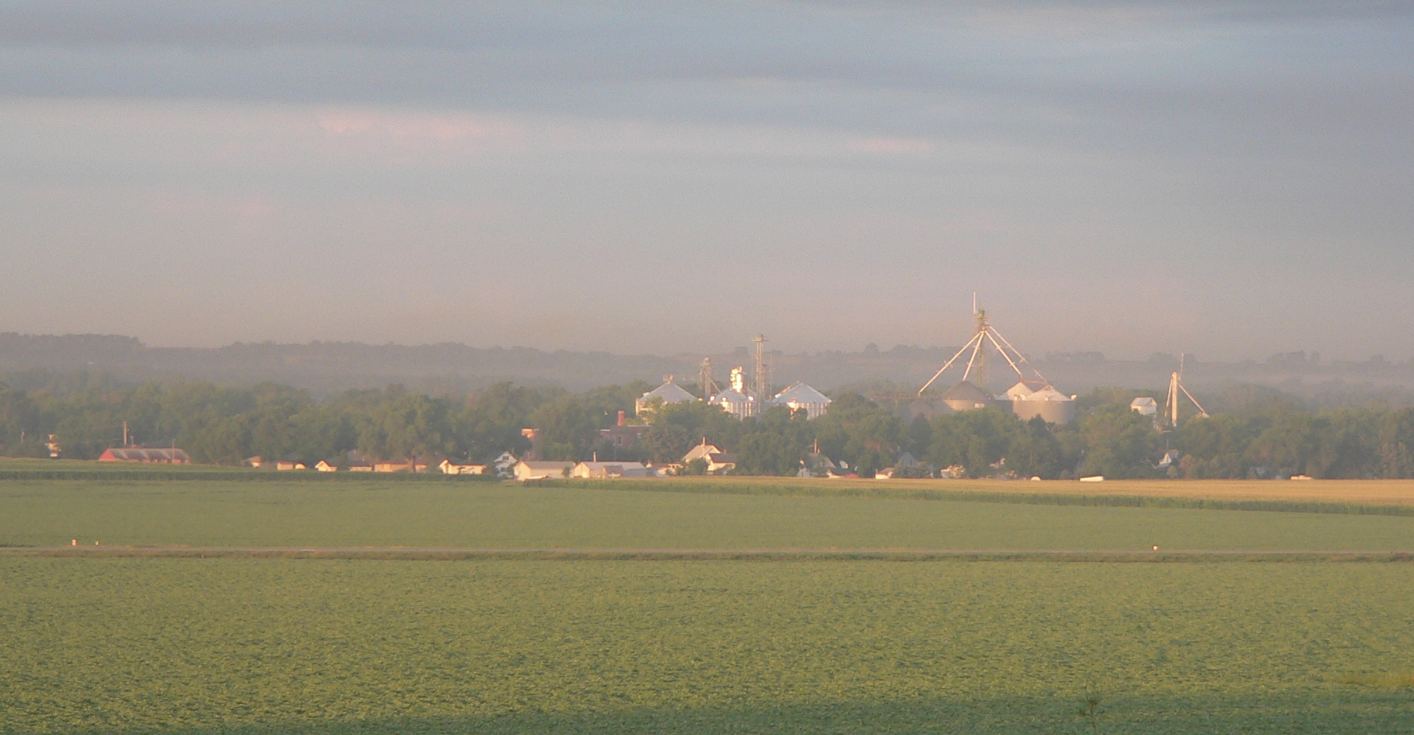 Pilger, Nebraska; seen at sunrise from Pilger Recreation Area, about a mile northeast of the village.